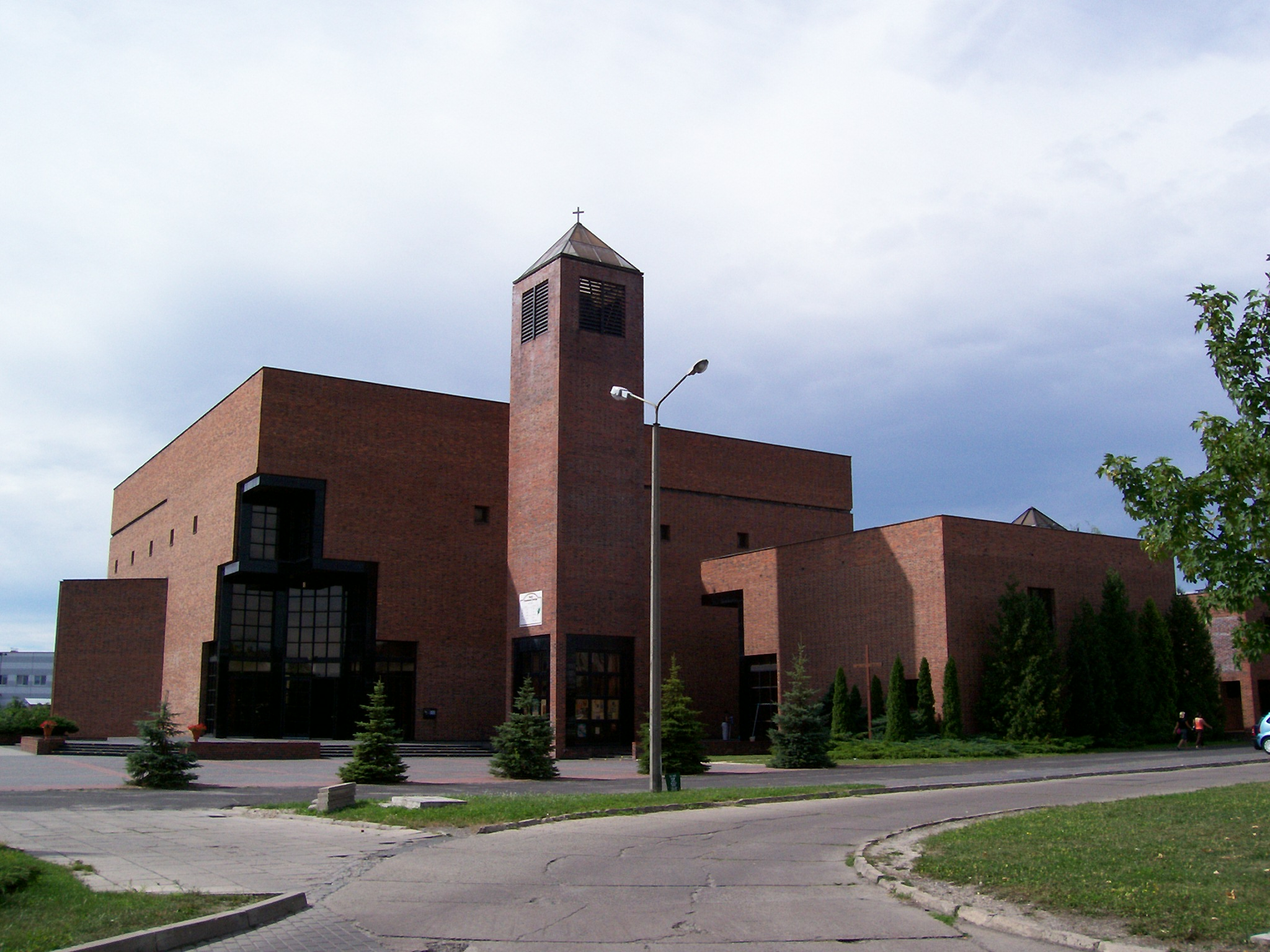 The church of Transfiguration of Jesus in Opole, Poland